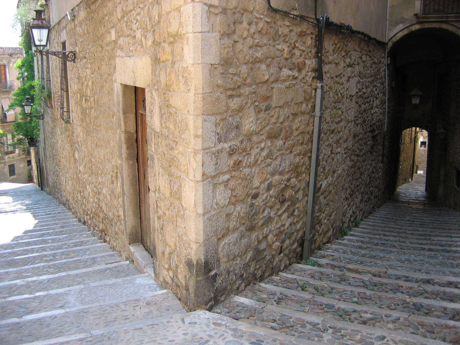 Manuel Cundaro street of the Jewry, Girona, Catalonia